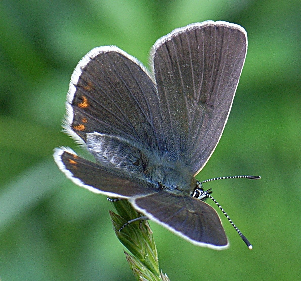 Plebeius eumedon